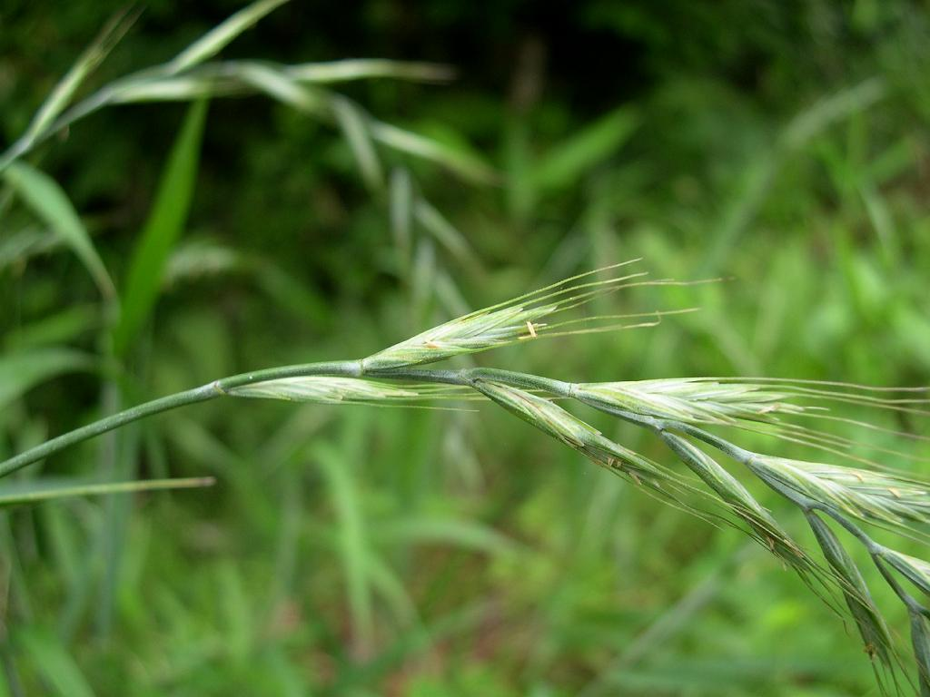 Elymus tsukushiensis Honda var. transiens (Hack.) Osada(Poaceae) Japanese name:Kamojigusa Date;2008,06,28;Tanabe city, Wakayama prefecture, Japan Author;Keisotyo